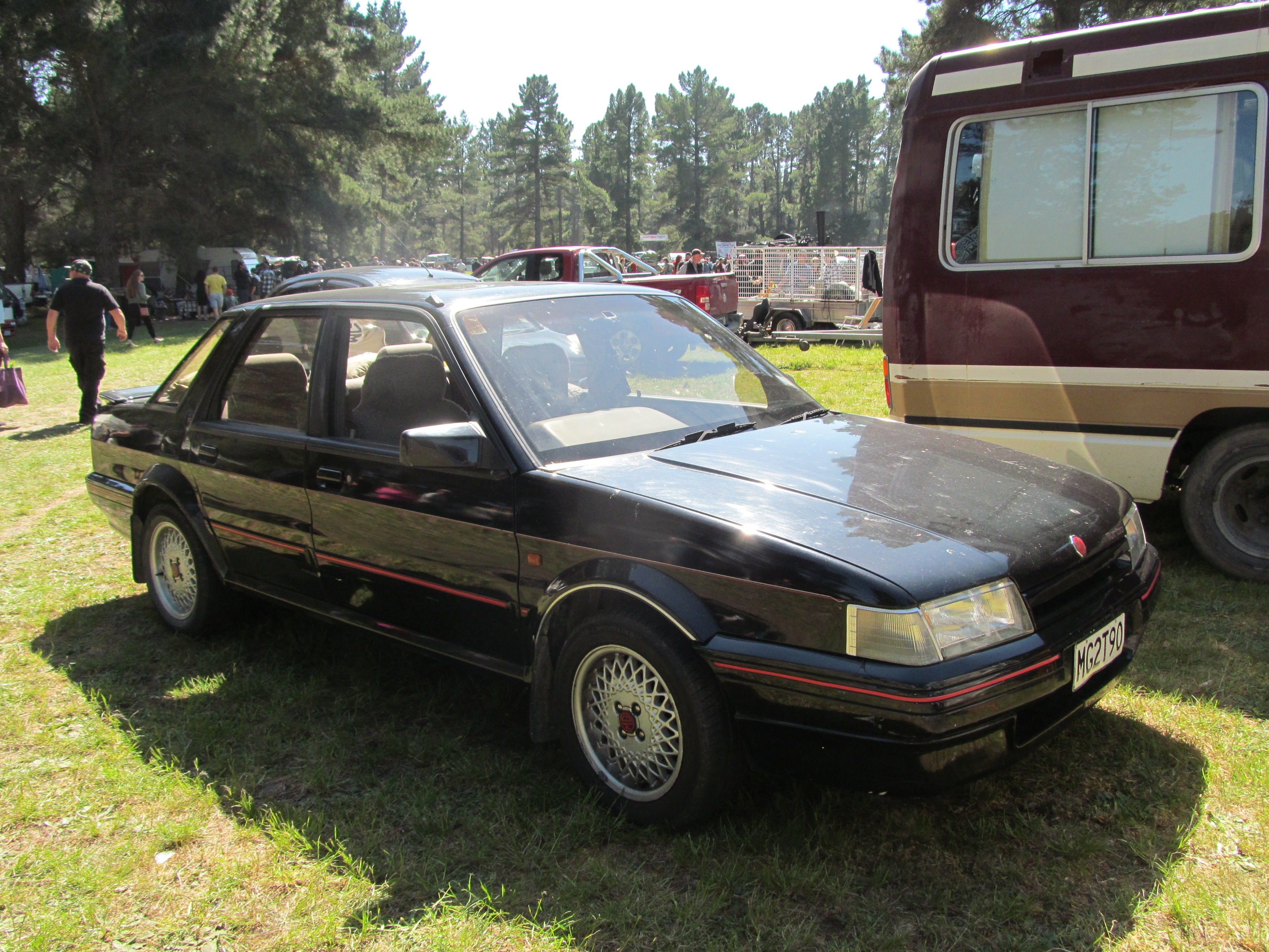 These are frustratingly rare here - this is only the second one I've seen all year. I imagine these are quite a lot of fun on the right roads...